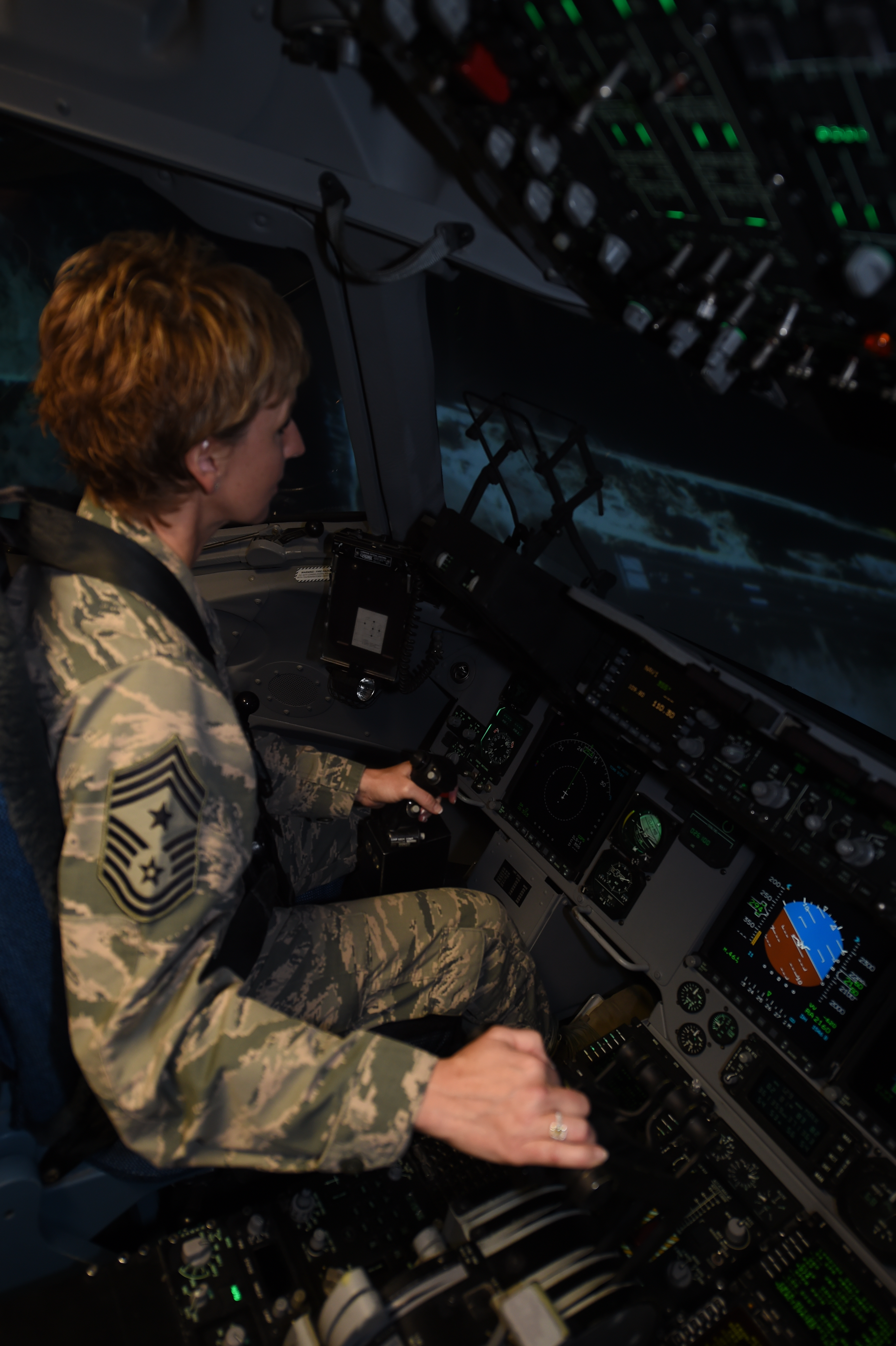 Chief Master Sgt. Gay Veale, command chief master sergeant of the Eleventh Air Force, tests her flying skills in the C-17 Globemaster III Simulator on Joint Base Pearl Harbor-Hickam, Hawaii, July 29, 2015. Veale’s adventure in the simulator was part of her tour of the 535th Airlift squadron’s facility. During her tour, Veale met airmen in their duty locations and recognized outstanding performers. The tour of the 535th AS was a part of a visit to the 15th wing that included tours of 10 other units with in the 15th Wing and several meals with Airmen, noncommissioned officers and senior noncommissioned officers, as well as meeting with the 15th Wing leadership about JBPHH’s unique joint base and total force integrated mission capabilities. (U.S. Air Force Photo by Tech. Sgt. Aaron Oelrich/Released)